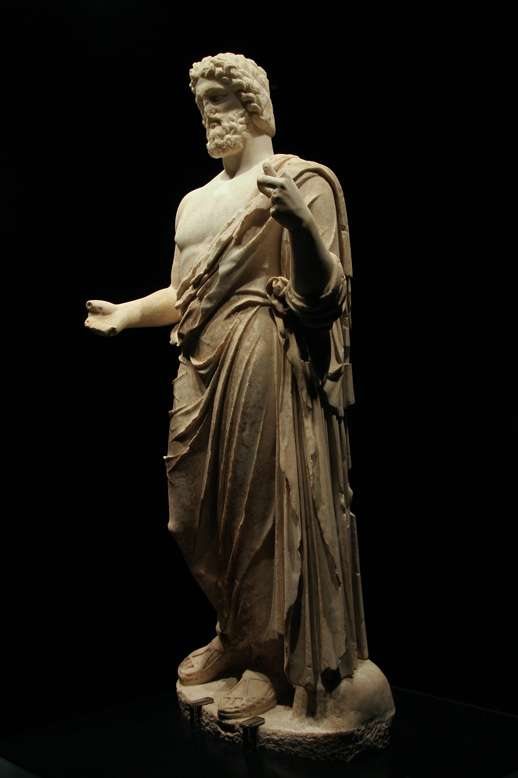 Asklepios. Greek sculpture found in the archaeological site of Ampurias in Girona (Spain).